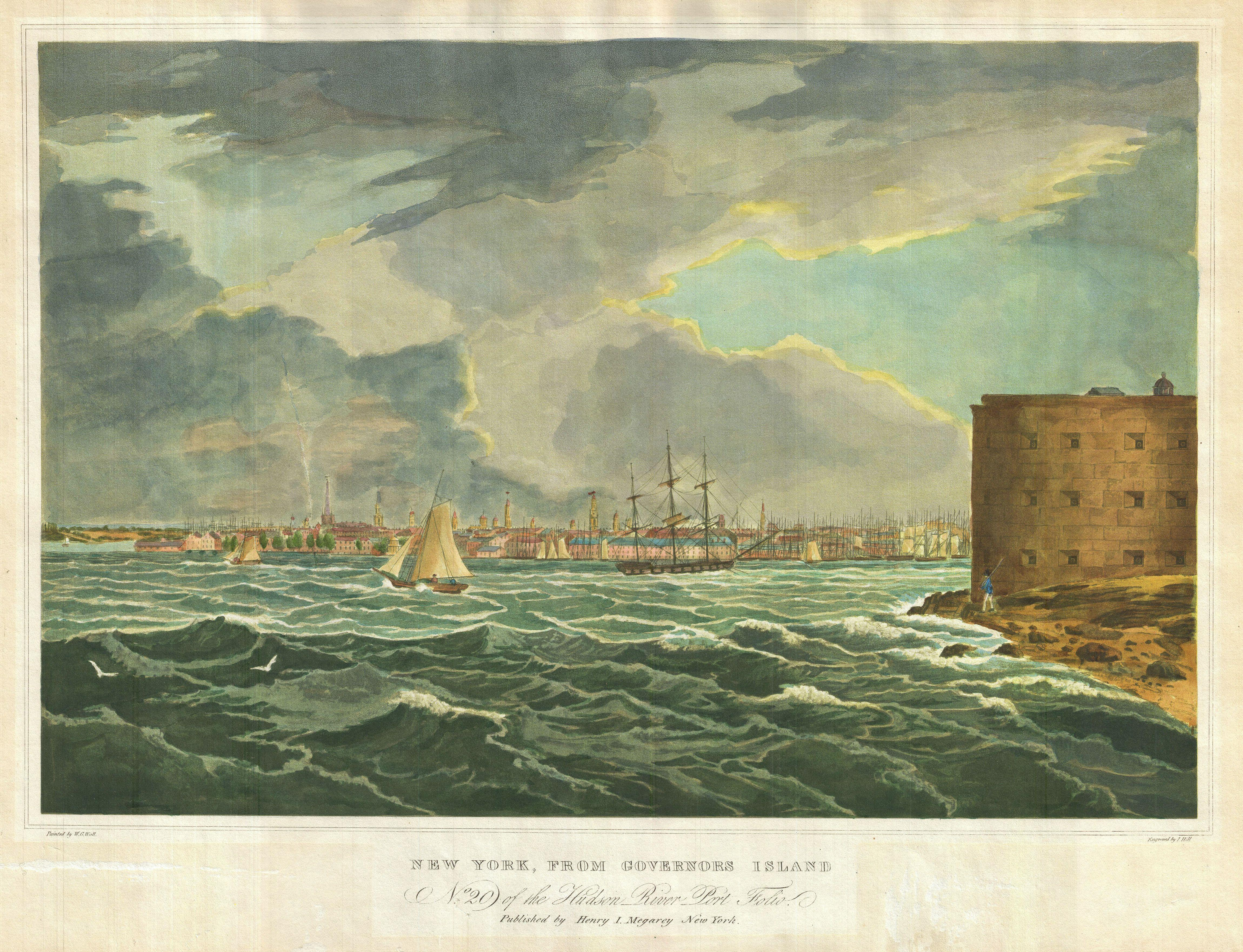 A rare find, this is plate no. 20 from William G. Wall, and Henry L. Megarey’s important 1825 Hudson River Port Folio. The Hudson River Port Folio is considered to be the first and finest set of views of the Hudson River ever published. The Port Folio consists of 20 aquatint views of the Hudson River as it traverses some 315 miles from the Adirondacks to New York City. This, the 20th and final view in the series is considered to be the most desirable for its early and important depiction of New York City. This widely popular serious was instrumental in fostering the development of the Hudson River School of painting. The portfolio was based upon a series of watercolors by the Dublin-born artist William Guy Wall. The New York publisher Henry Megarey hired John Hill to create a series of aquatints based upon Wall’s work. The result, published between 1821 and 1825, was a cost effective and popular series of views that led to widespread appreciation for the American indigenous landscape. Examples of the Hudson River Portfolio were issued in three editions, with some examples being hand colored by the publisher and some issued without color. This appears to be an uncolored issue to which color has been added at a later date.